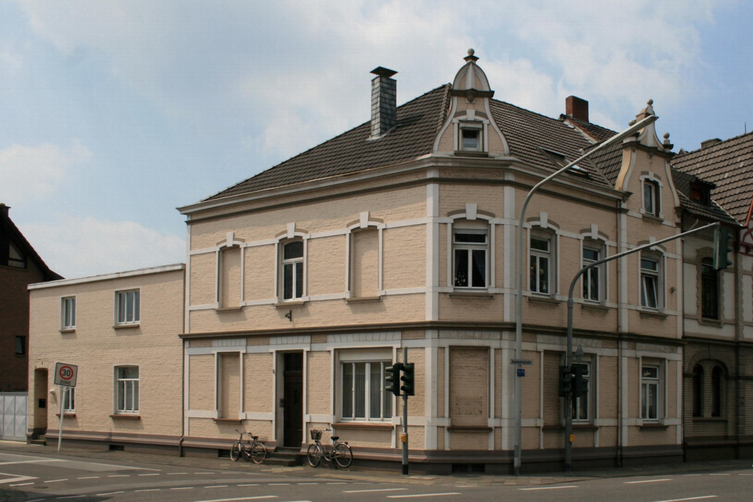 Cultural heritage monument No. B 122 in Mönchengladbach